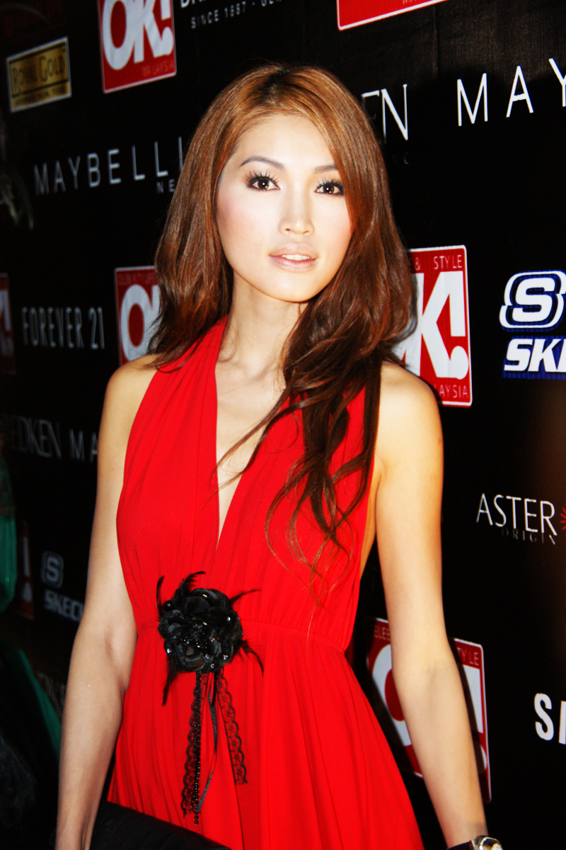 Amber Chia